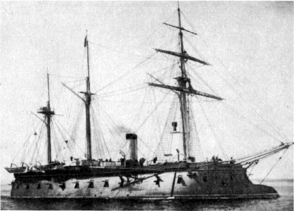 The Russian ironclad Ne Tron Menia - Pervenets-class broadside ironclads built for the Imperial Russian Navy during the mid-1860